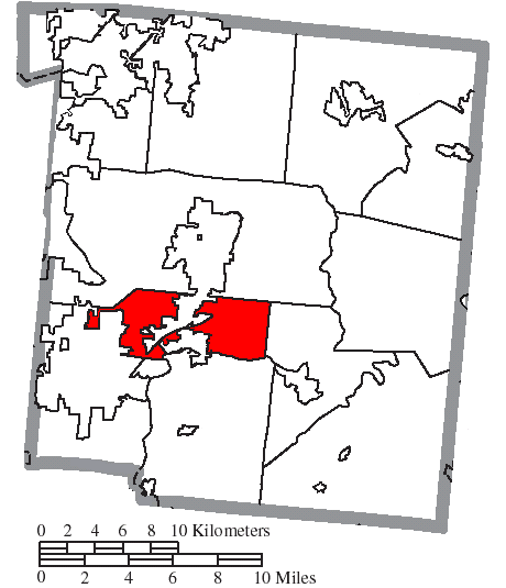 Map of the municipal and township boundaries of Warren County, Ohio, United States, as of the 2000 census, with the location of Union Township highlighted. Township borders are shown only in unincorporated areas in order to differentiate incorporated and unincorporated areas more clearly.